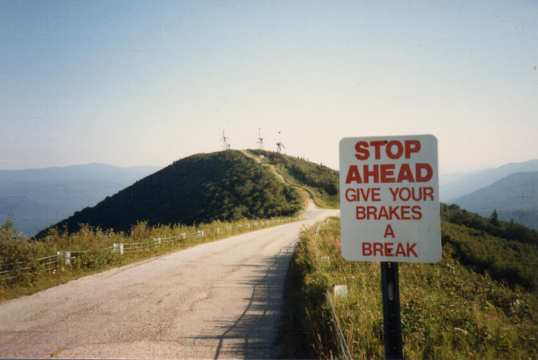 This was a wind farm built on Little Equinox Mountain in the 1980s